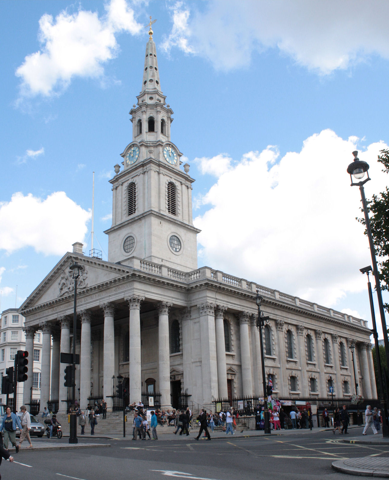 The earliest known church on this site was built in the 1220s. It was rebuilt in 1542 and replaced by the existing church in 1726 to a design by James Gibbs.